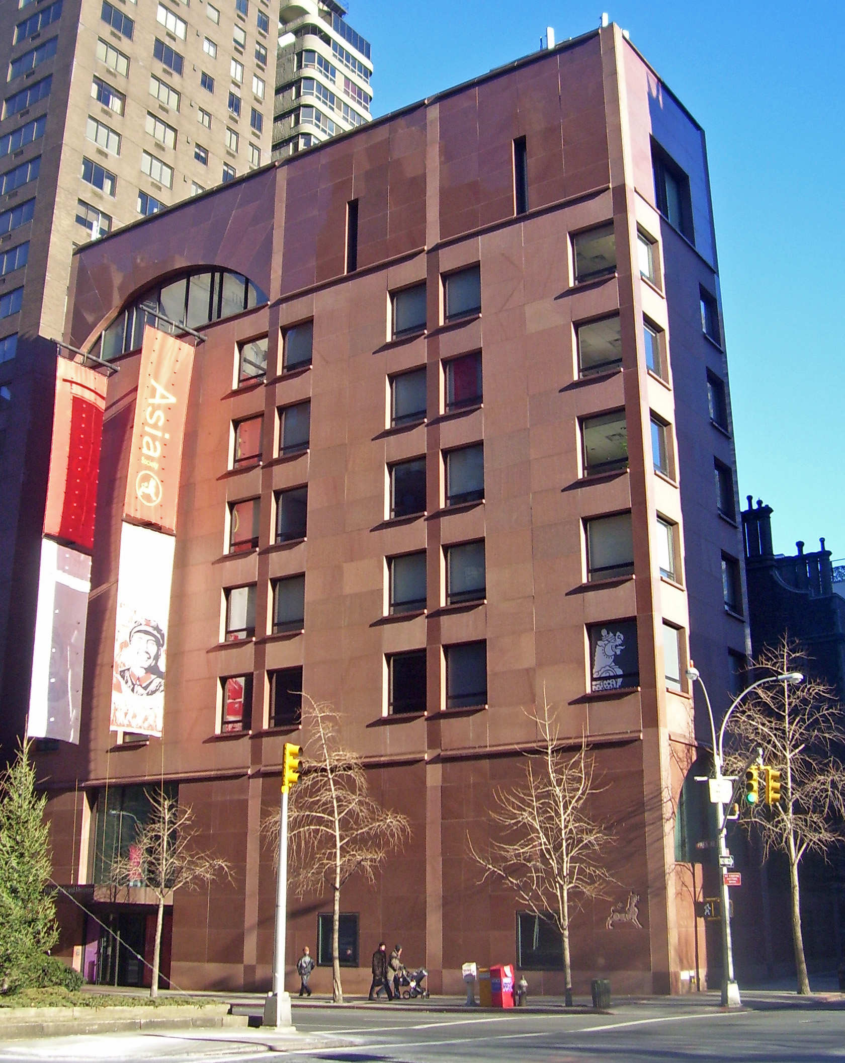 Asia Society building, Park Avenue and E. 70th St., Manhattan, NY, USA